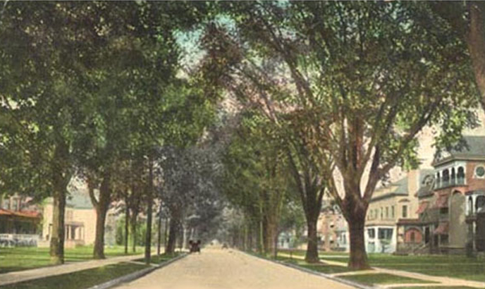 Onondaga Street in Syracuse, New York about 1910